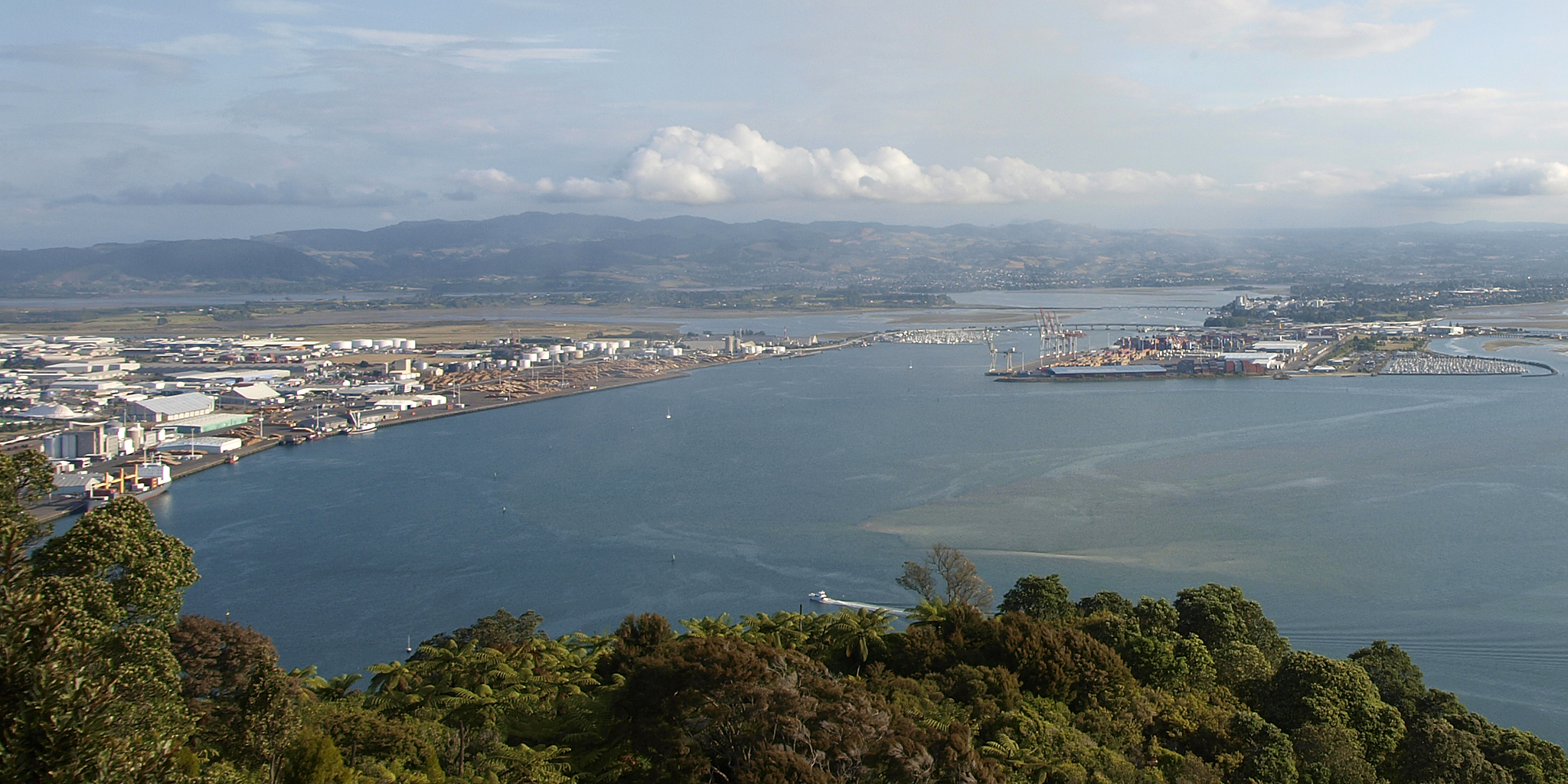 Port of Tauranga, Tauranga, Bay of Plenty, North Island, New Zealand